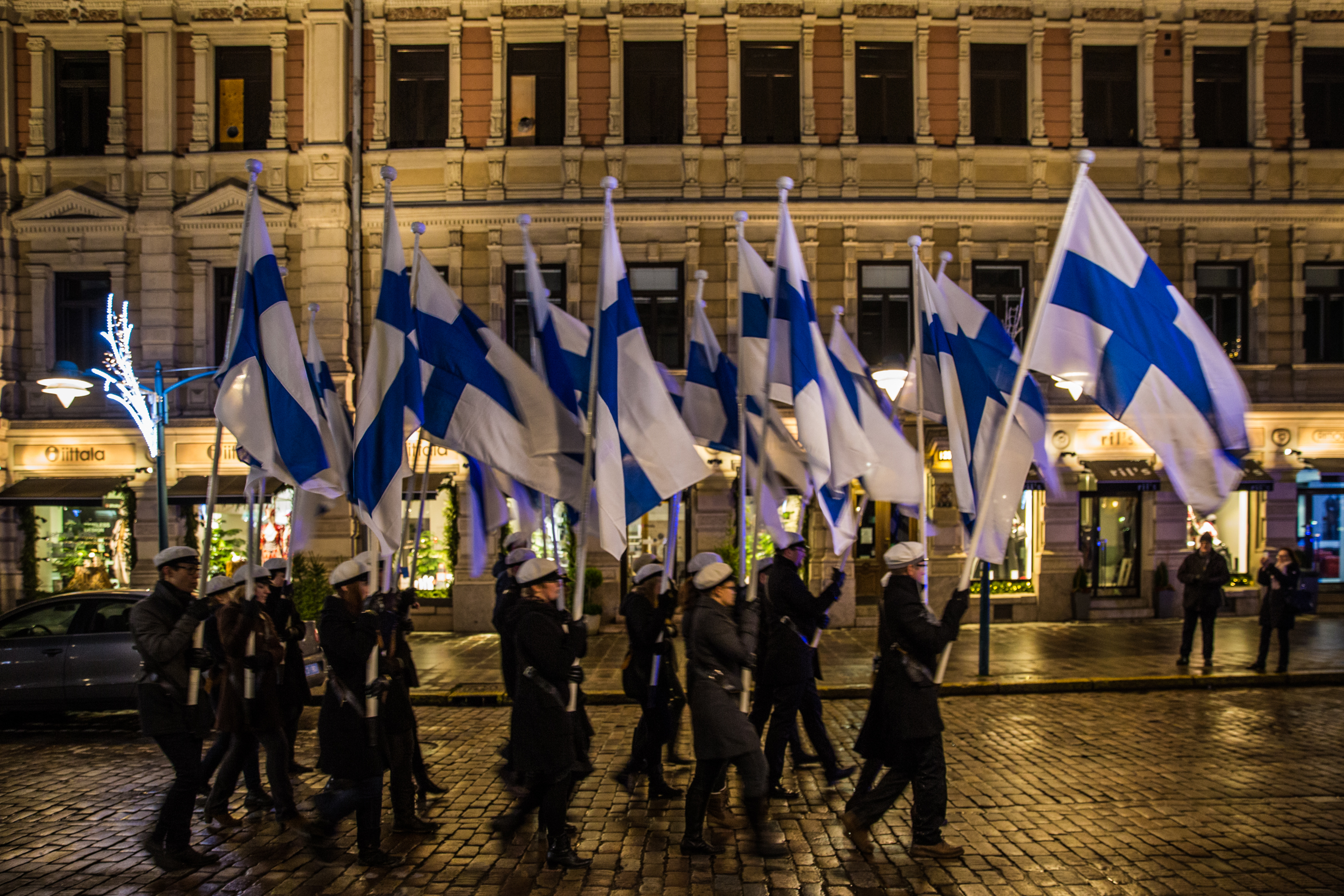 Student's torch cavalcade on Independence day 2015